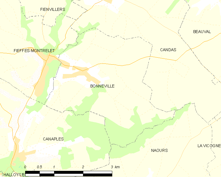 Map of French municipality Bonneville